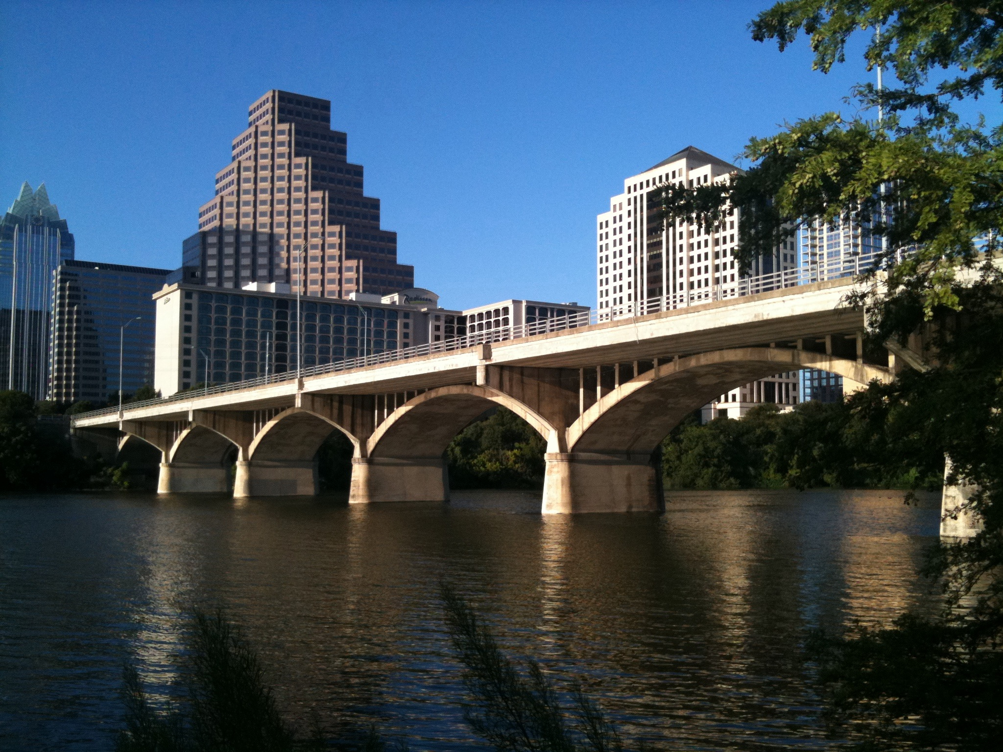 This bridge was renamed the Ann W. Richards Congress Bridge in honor of former Texas Governor, Ann W. Richards. Ann W. Richards Congress Avenue Bridge is home to the world's largest urban bat colony, which is composed of Mexican Free-tailed Bats. The bats reside beneath the road deck in gaps between the concrete component structures. They are migratory, spending their summers in Austin and the winters in Mexico. According to Bat Conservation International[1], between 750,000 and 1.5 million bats reside underneath the bridge each summer. Since Austin's human population is about 750,000, there are more bats than people in Austin during the summer. Wikipedia